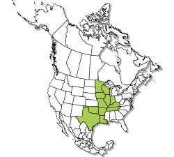 Distribution of the Pallid Shiner fish Hybobsis amnis in United States